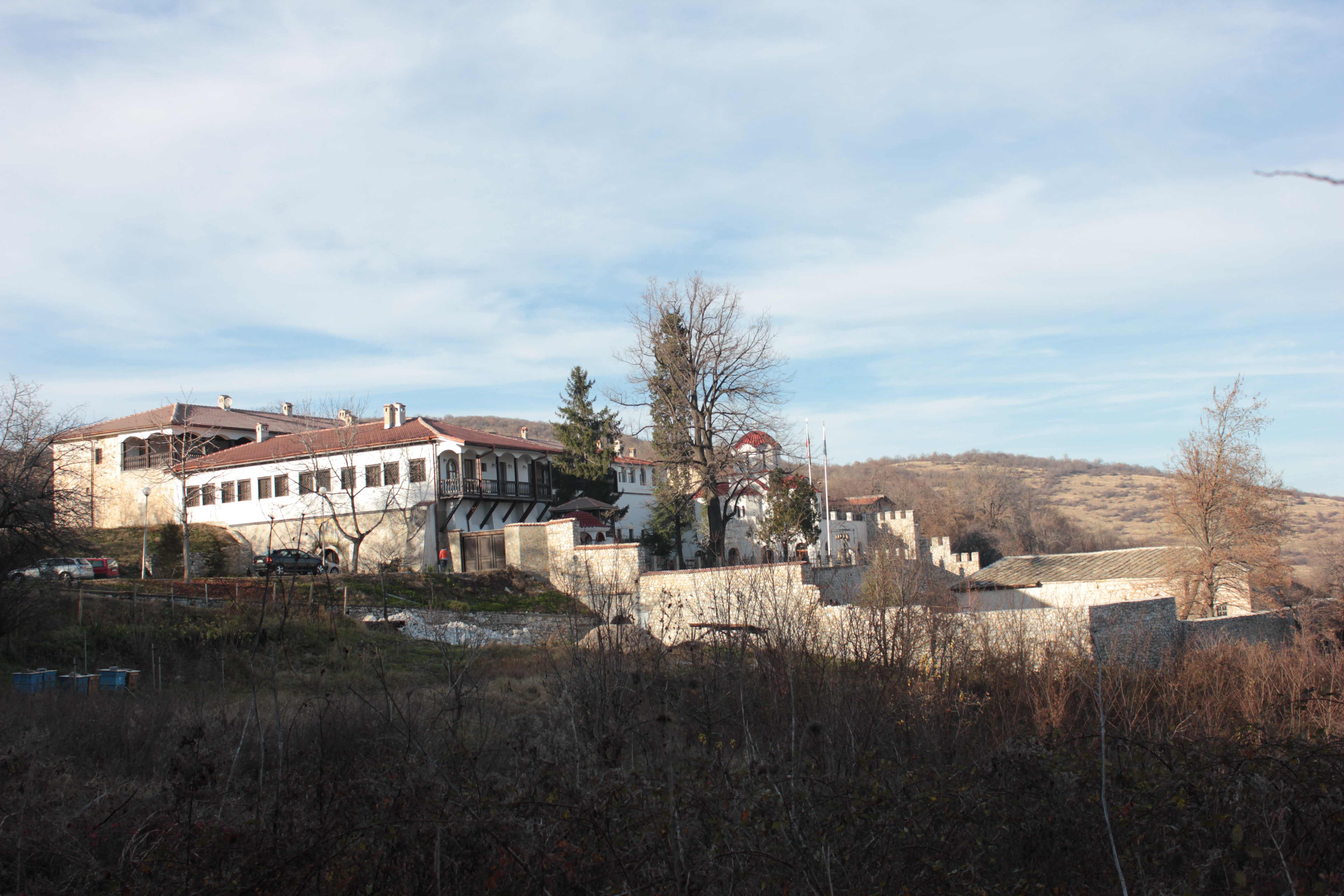 View of Kuklen Monastery, Bulgaria